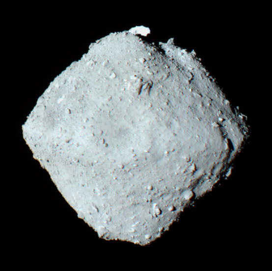 This is a colored view of the C-type asteroid 162173 Ryugu, seen by the ONC-T camera on board of Hayabusa2.Filters: vwxdate:2018-07-12 08:01Image level: 2b (Images after hardware correction and radiometric correction)Image Credit: JAXA Hayabusa 2